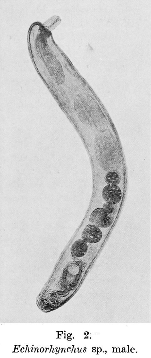 A specimen of an unidentified spieces of the genus Echinorhynchus - a genus of thorny-headed worms (phylum Acanthocephala, family Echinorhynchidae).